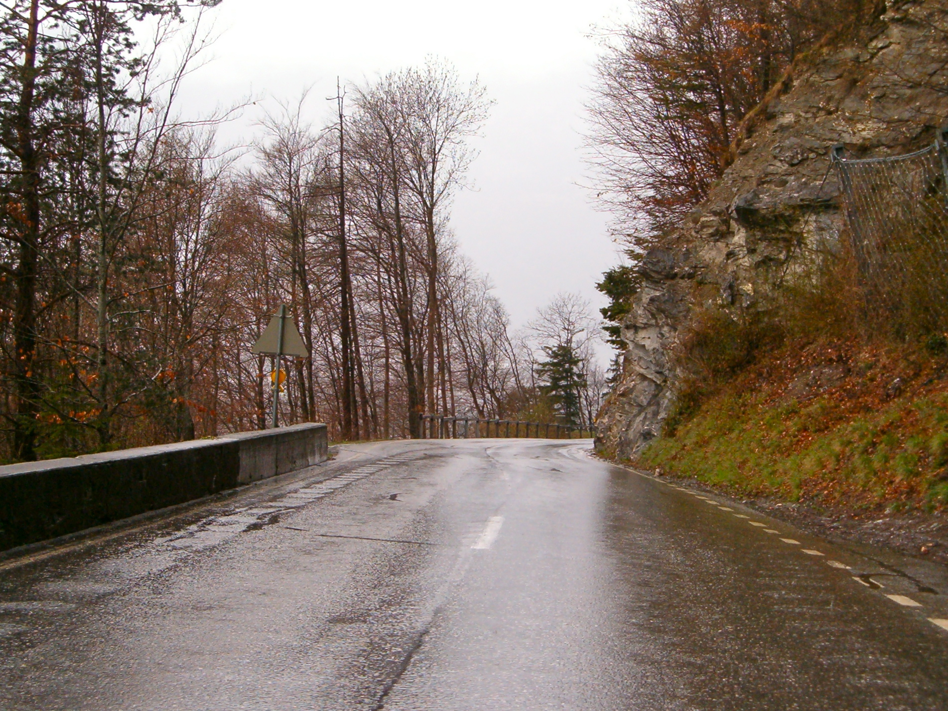 Street to Arosa above Chur, Switzerland